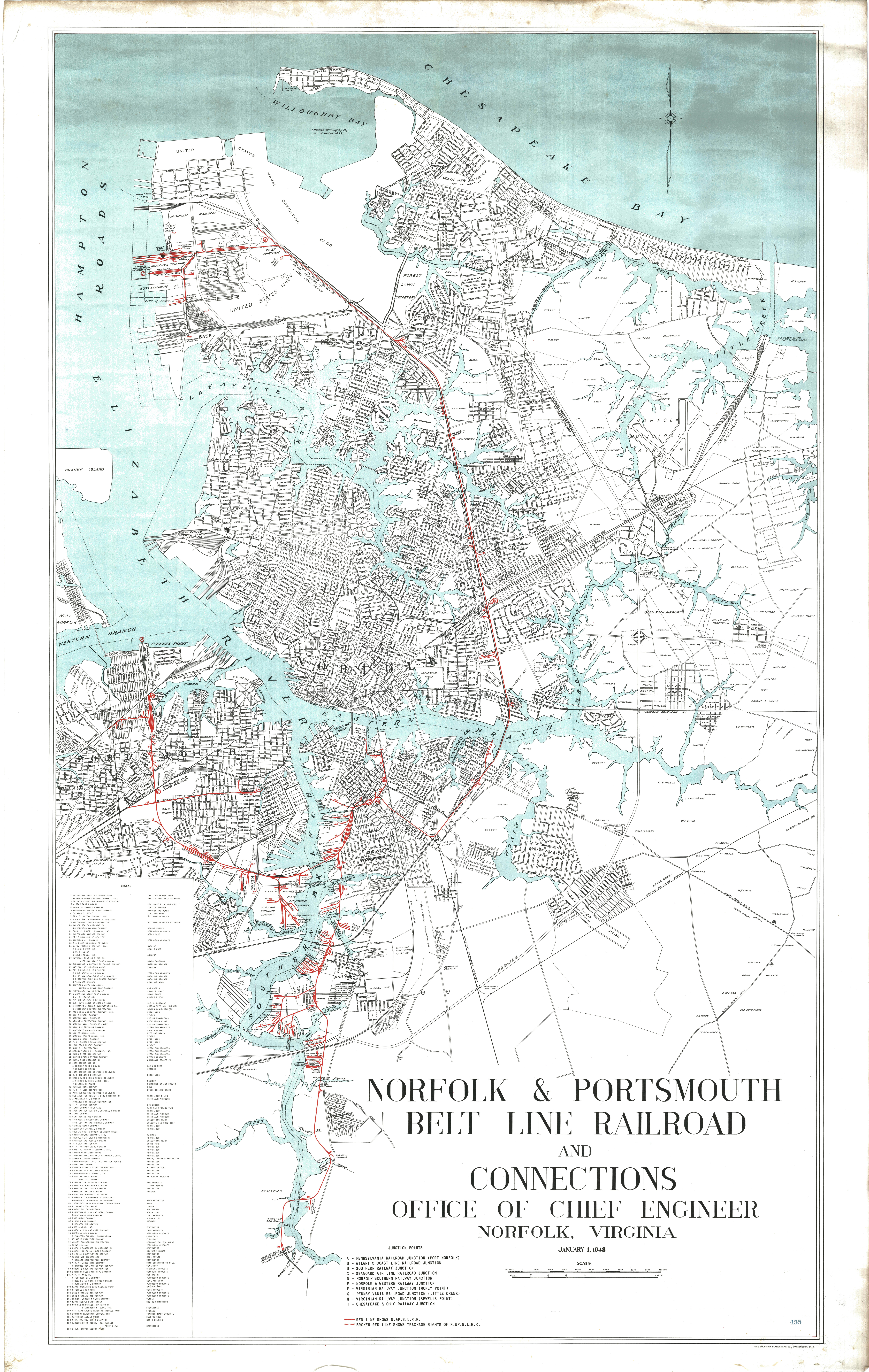 A system map of the Norfolk and Portsmouth Belt Line Railroad, it's interchanges and surrounding municipalities.